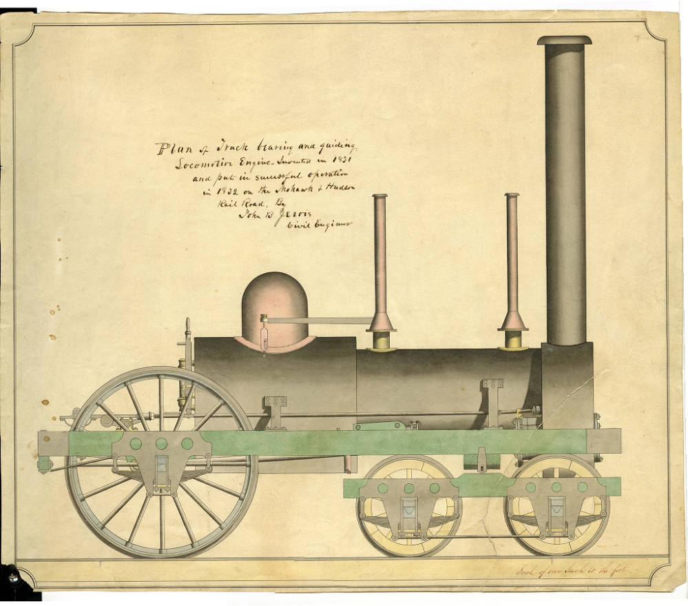 An elevation drawing of the 4-2-0 locomotive Experiment, designed by engineer John B. Jervis and built in 1832 for the Mohawk and Hudson Railroad. Experiment was the first locomotive to have a pivoting leading four-wheel truck (bogie) for guidance, an invention that soon entered wide use on locomotives in the United States and other countries. This drawing shows Experiment as first built, with a long shallow firebox that was intended to burn anthracite, a hard coal which burns slowly. As it turned out, the locomotive had trouble producing sufficient steam with this firebox even when wood fuel was used. It was rebuilt in 1833 with a shorter and deeper wood-burning firebox; renamed Brother Jonathan, it was much more successful in this form.